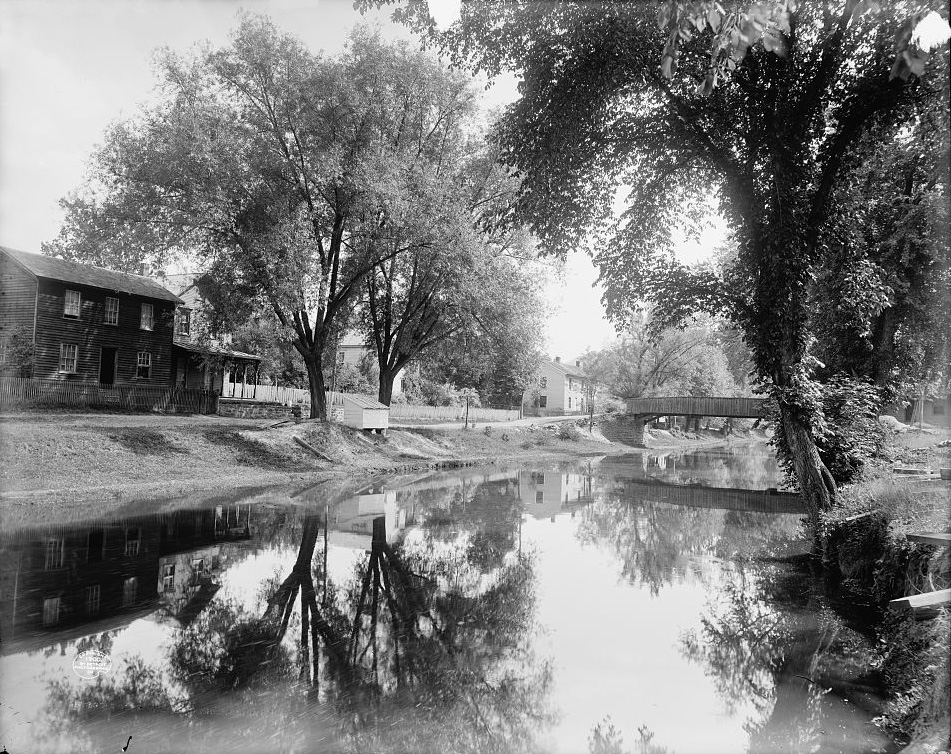 Pennsylvania Canal (North Branch Division) near Shickshinny, Pennsylvania, in the United States. Call number is "LC-D4-12235"; original title was "The Canal near Shickshinny, Pa."